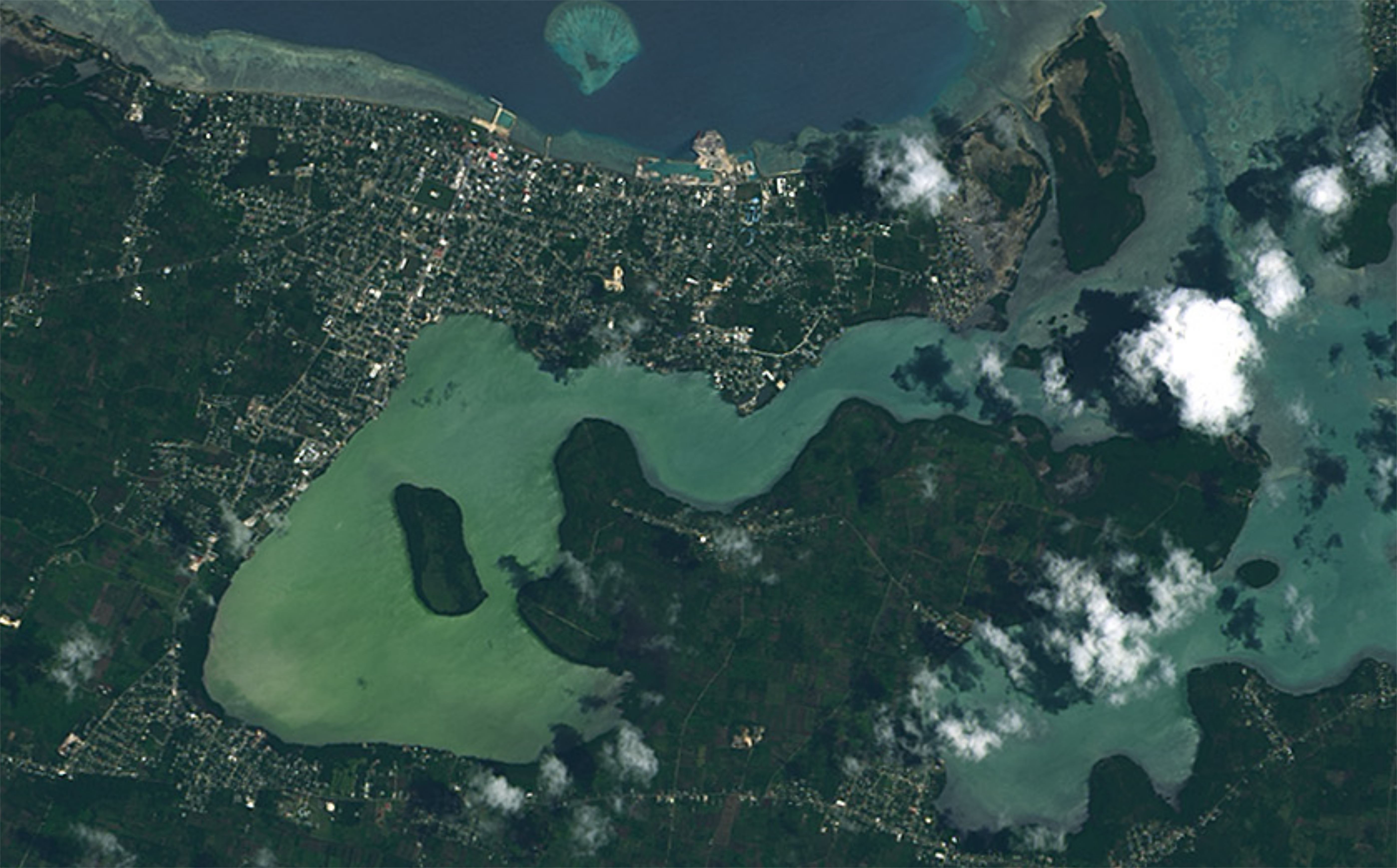 Satellite view of Nuku'alofa, capital of Tonga on Tongatapu island.